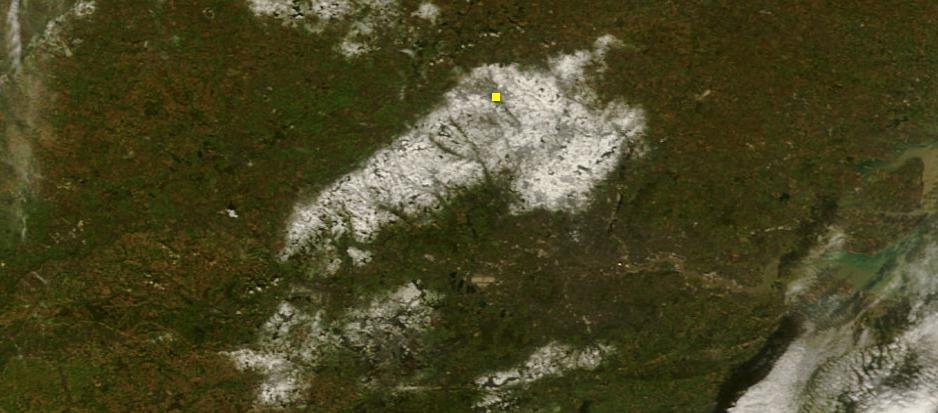 Luton: Marginal snow event october 2008.